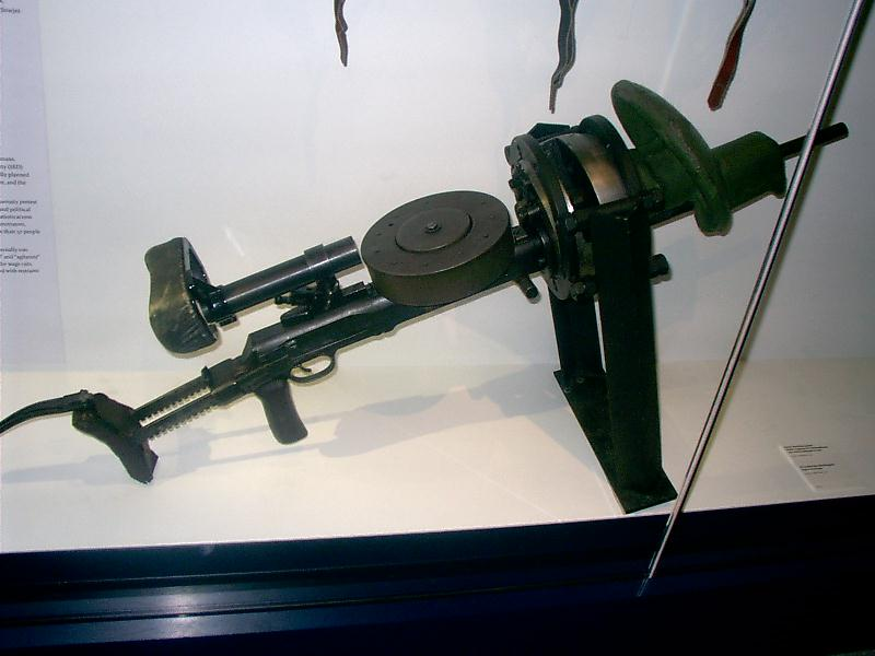 Machine gun Degtyaryov DP, Version DT (Degtyaryova tankovy) for armoured fighting vehicle's (Bundeswehr Military History Museum Dresden).